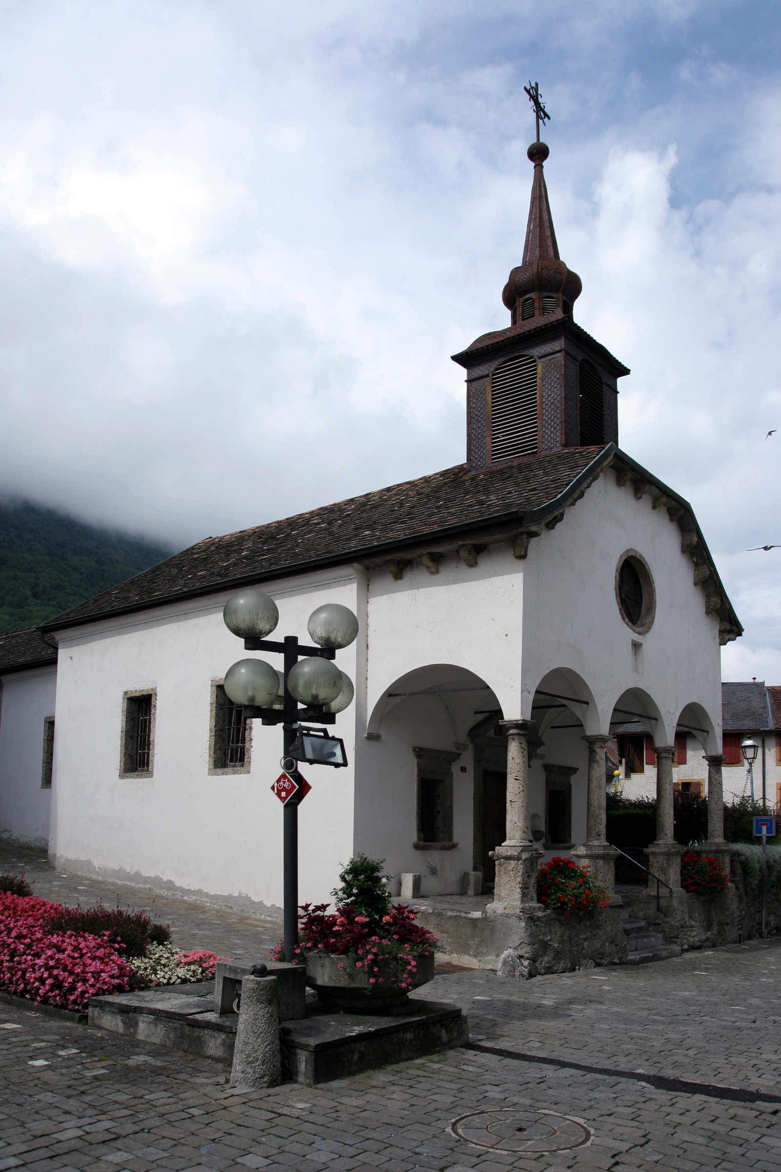 The chapel of Saint Gingolph, canton of Valais, Switzerland.